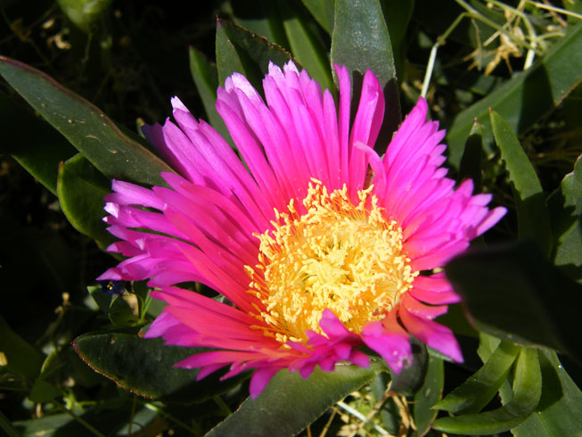 Carpobrotus in a xeric garden, in Israel.